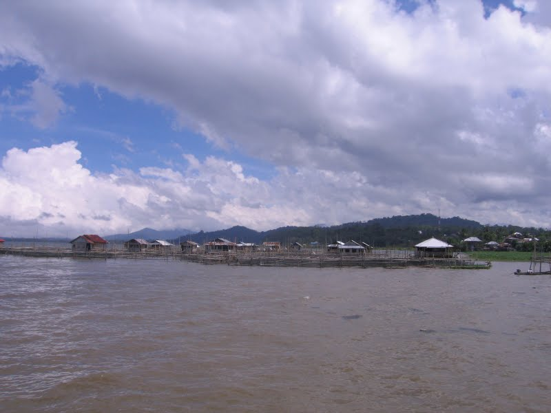 Lake Tondano, Sulawesi, Indonesia